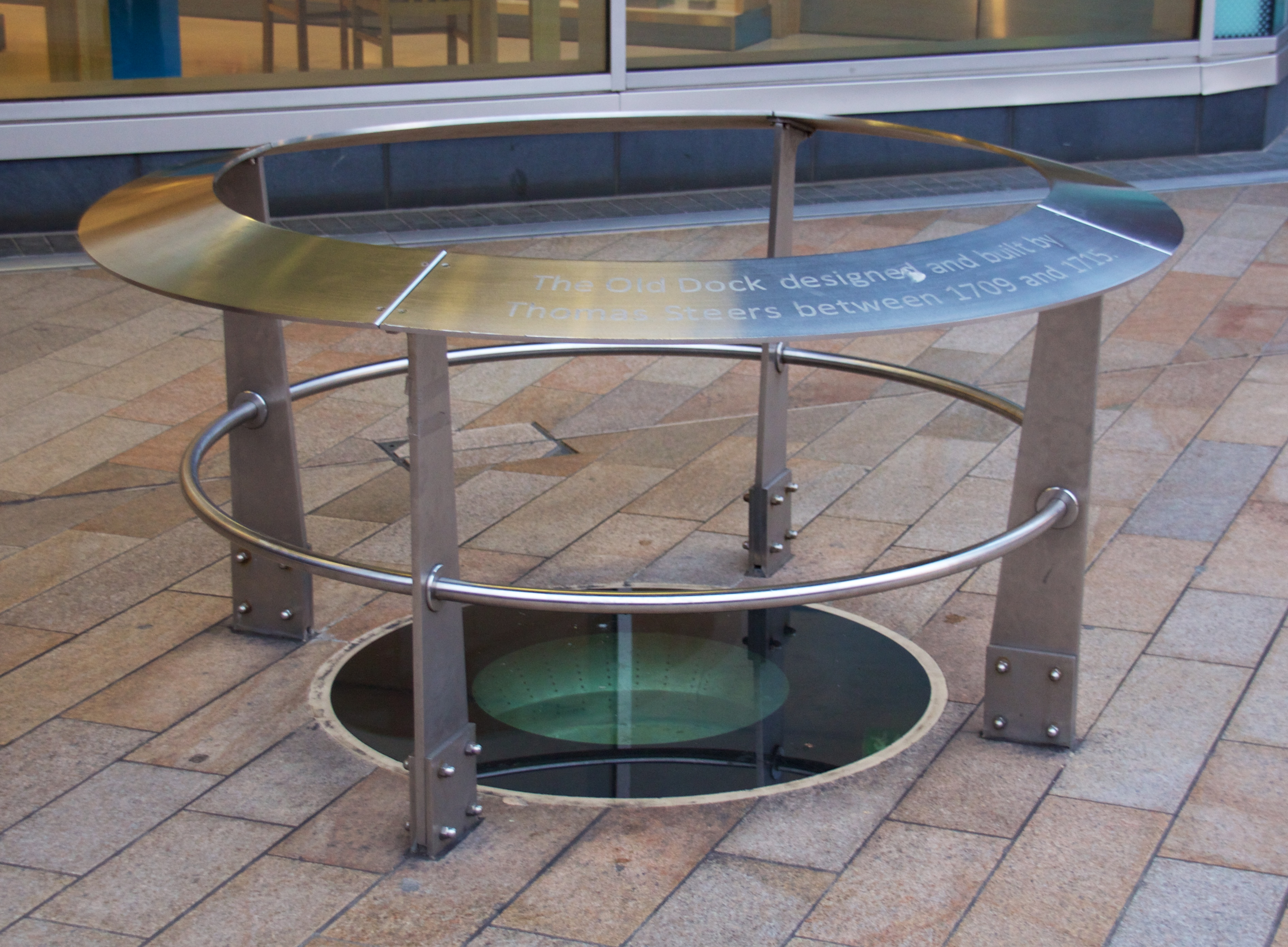 Viewport down to the old dock in Liverpool.